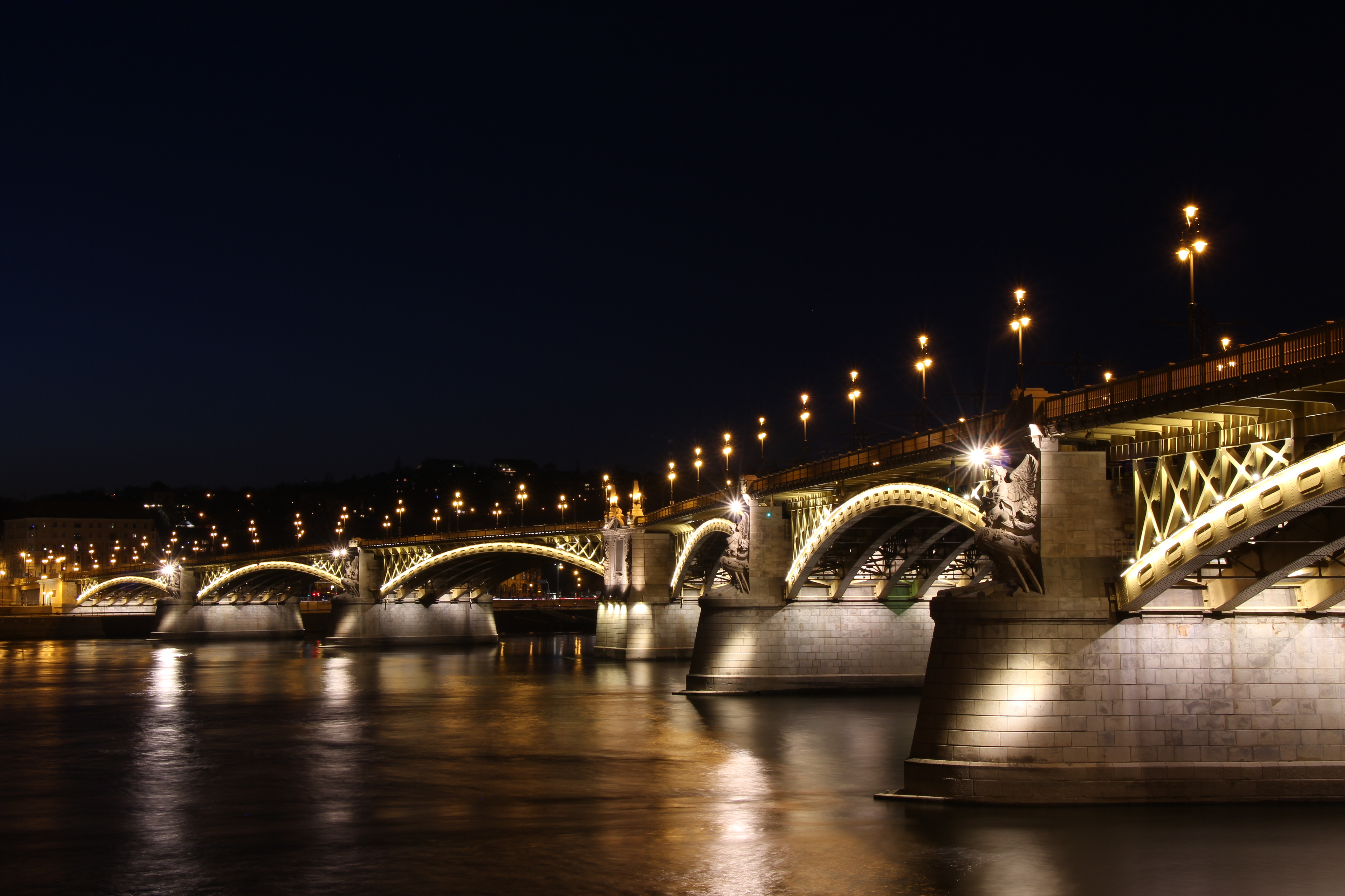 Margaret Bridge Budapest by night